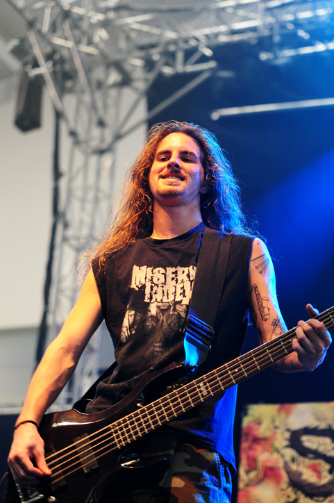 No Sleep Til Festival 2010